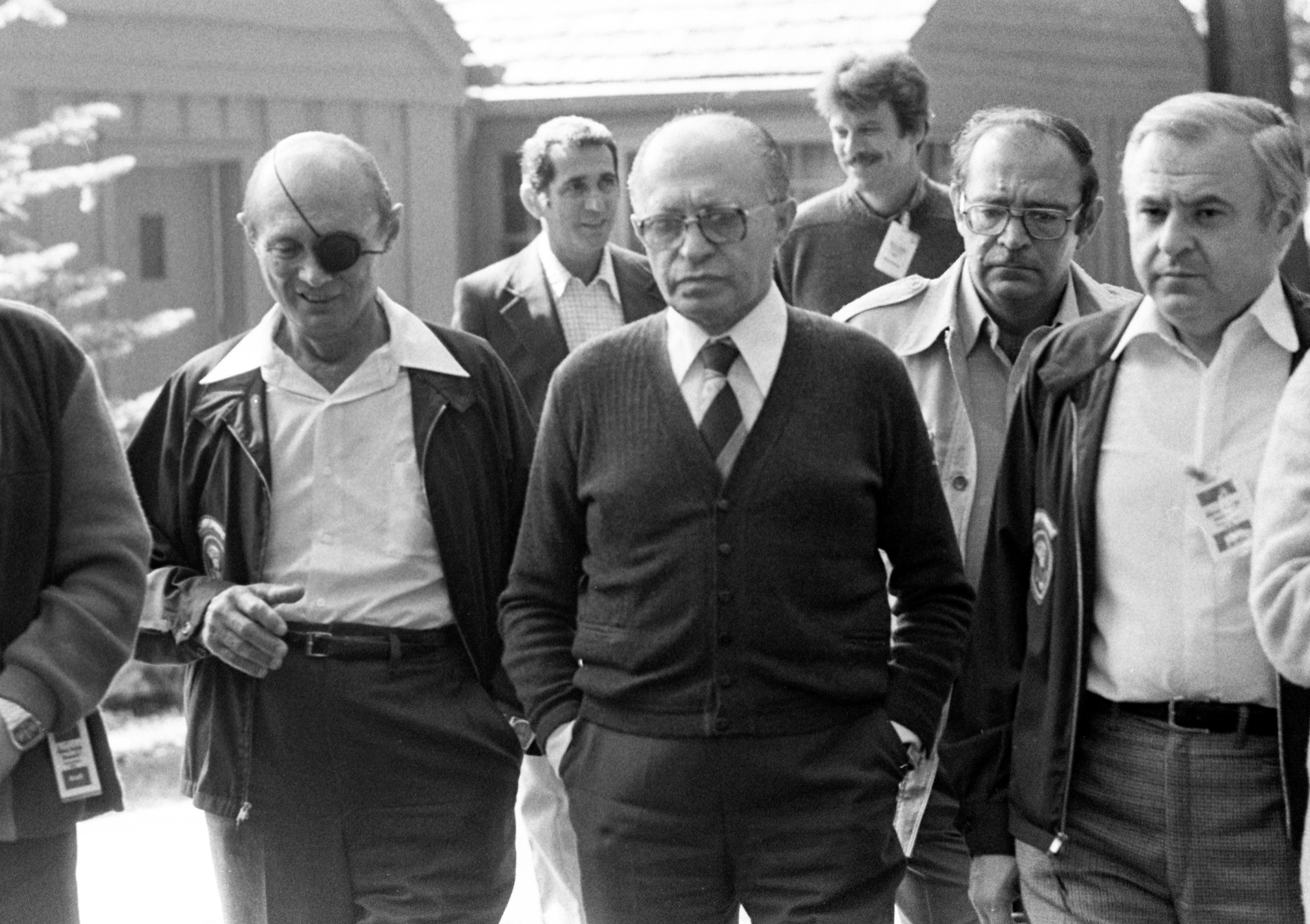 Photo courtesy of Jimmy Carter Library